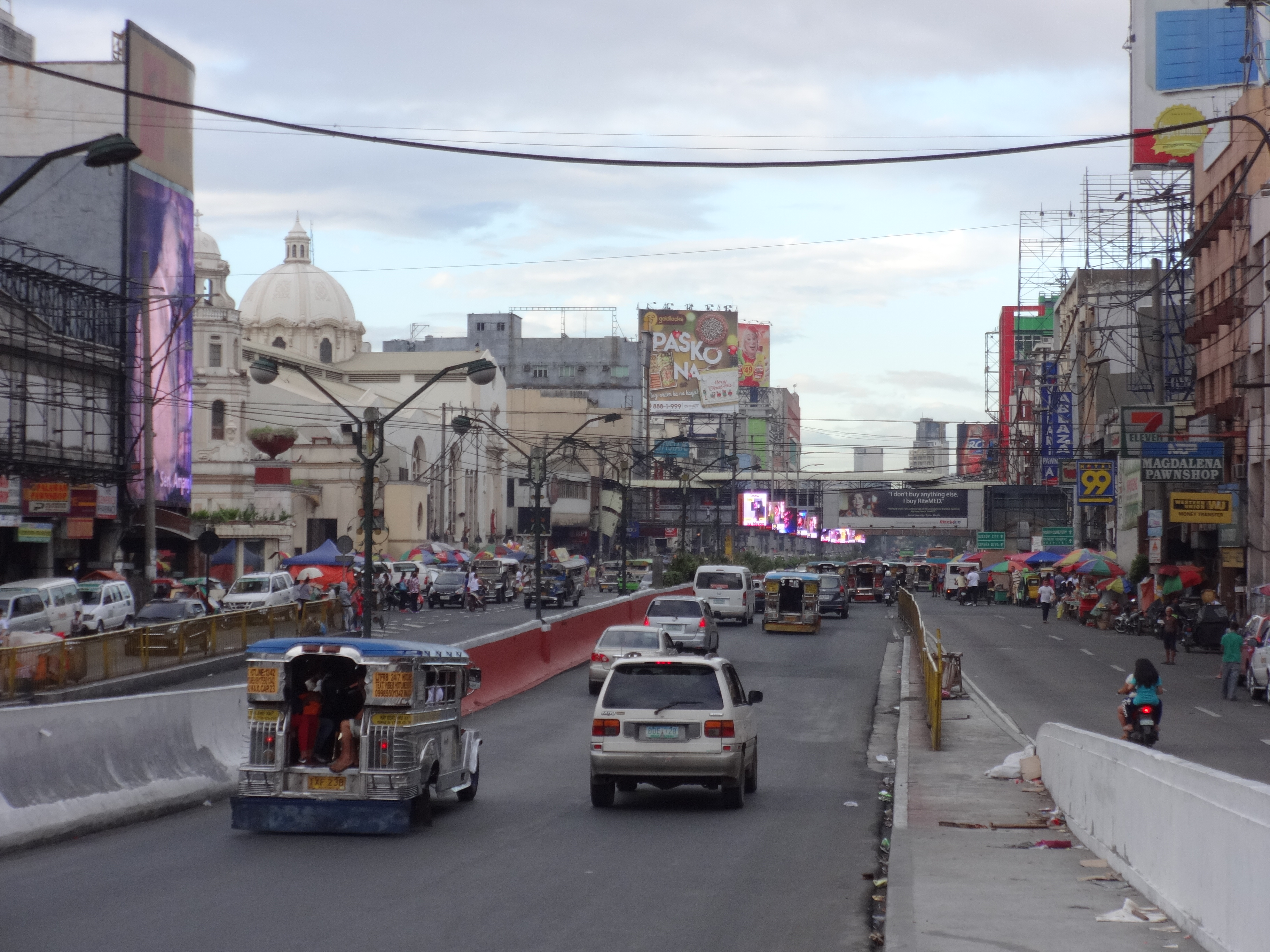 View of Quezon Boulevard near Plaza Miranda in Quiapo, Manila